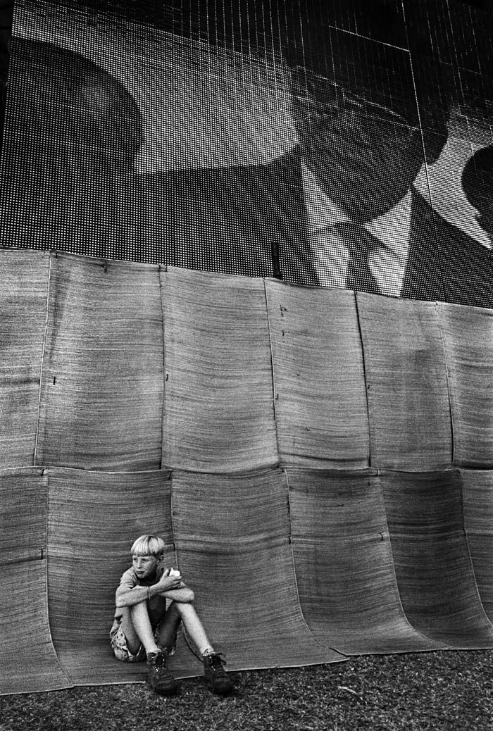 Inauguration of President Nelson Mandela, Pretoria, 1994. Part of the collection from Paul Weinberg that makes up the photographic book Travelling Light and was also part of the Then and Now exhibition at Duke University.